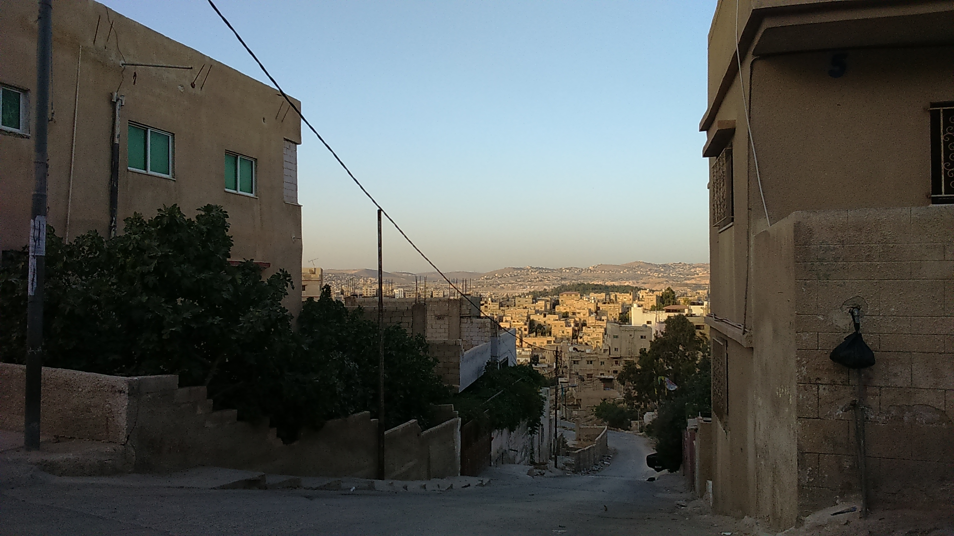 Al Jabal al shamale, Russeifa, Jordan